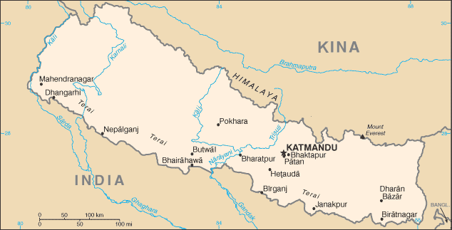 CIA map of Nepal with Norwegian text